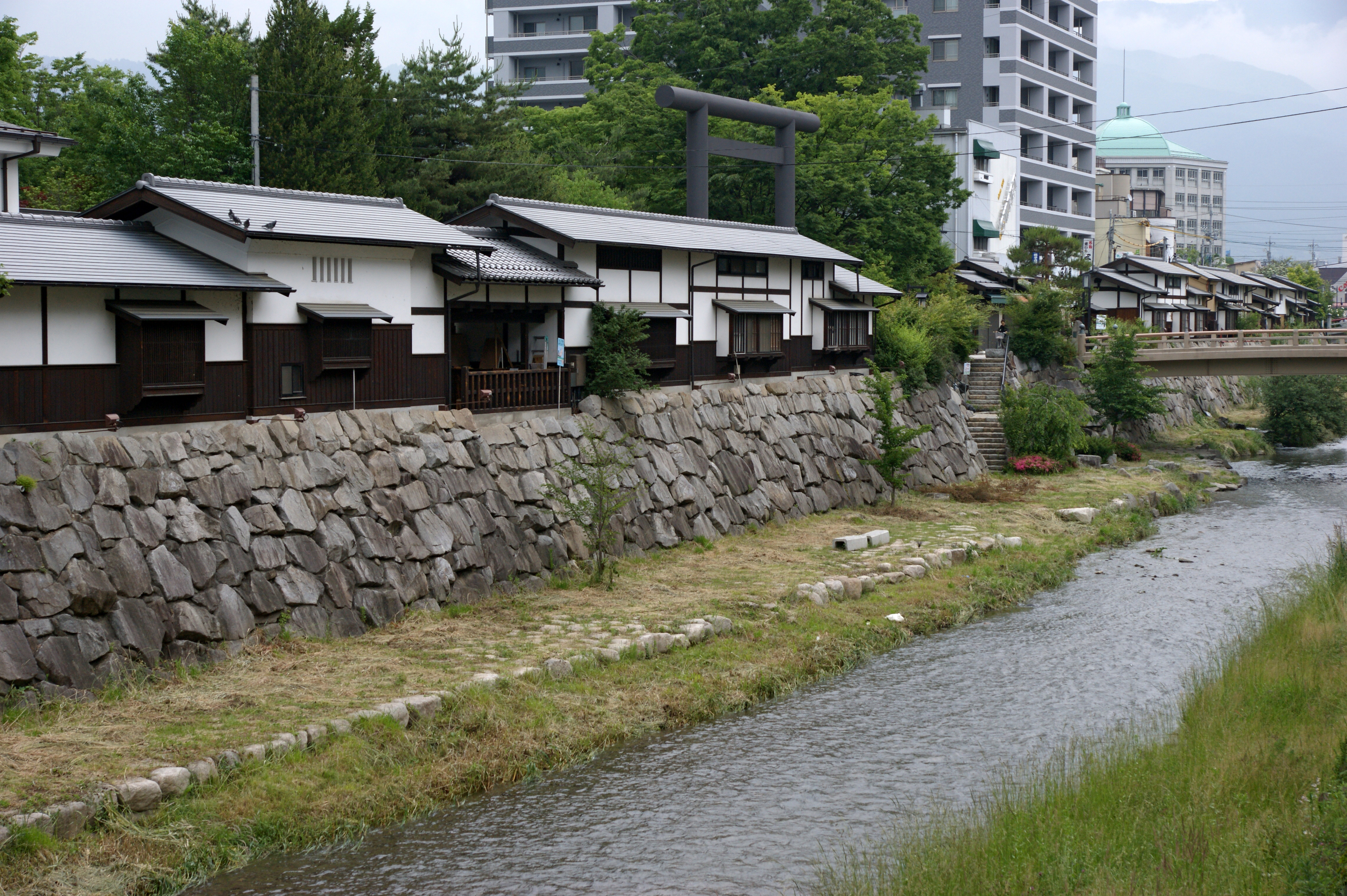 Nawate shop street in Matsumoto, Nagano prefecture, Japan